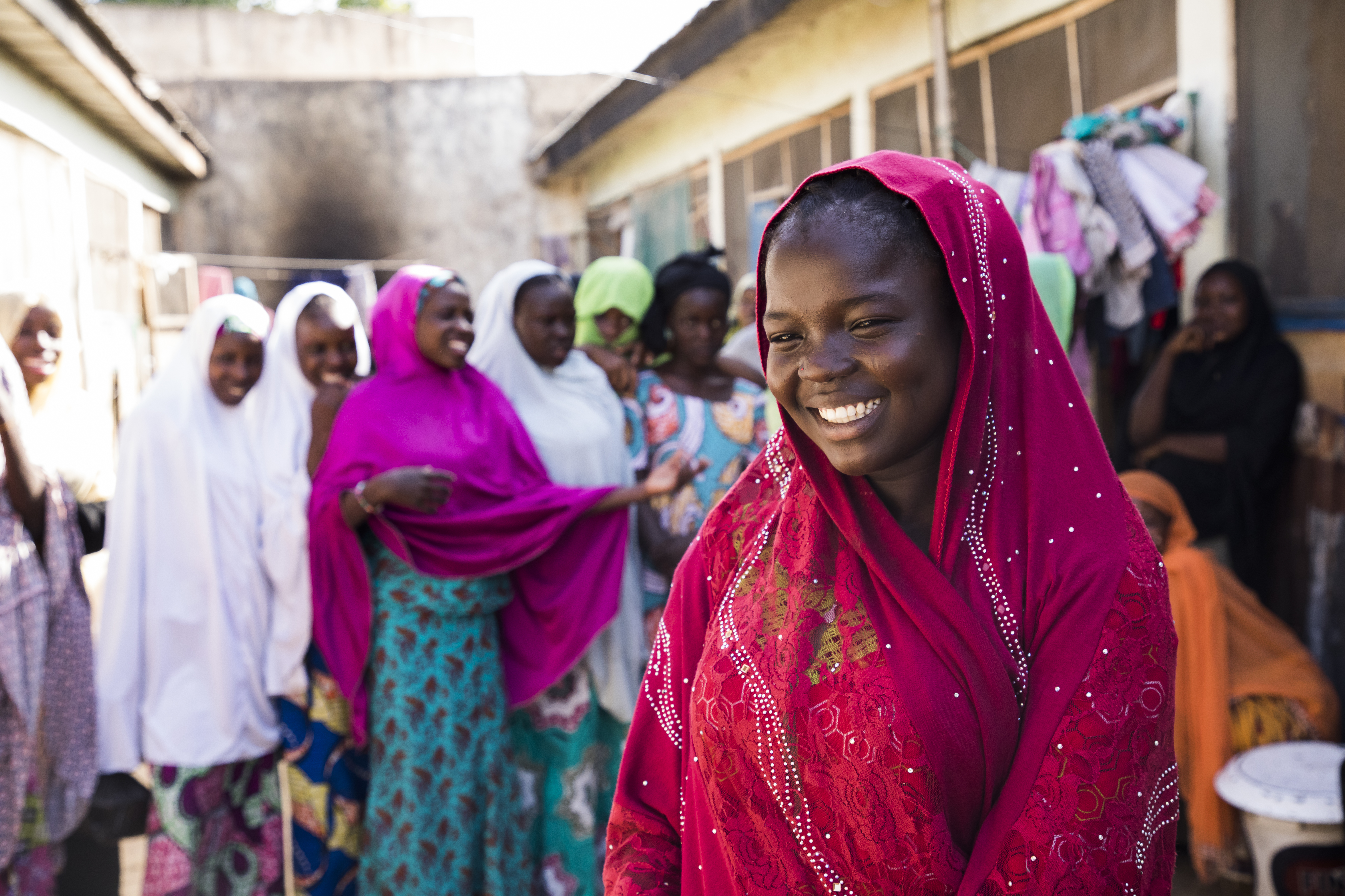 For 17-year-old Aisha Mohammed, education is playing a vital role in rebuilding her self-confidence and hope for the future after being displaced by Boko Haram insurgency in Northeastern Nigeria. Through USAID’s Nigeria Education Crisis Response activity, she is learning to read, write, and receives social emotional support in a safe environment. (Photo by Erick Gibson / Creative Associates International - A USAID funded activity in Nigeria) @USAIDNigeria